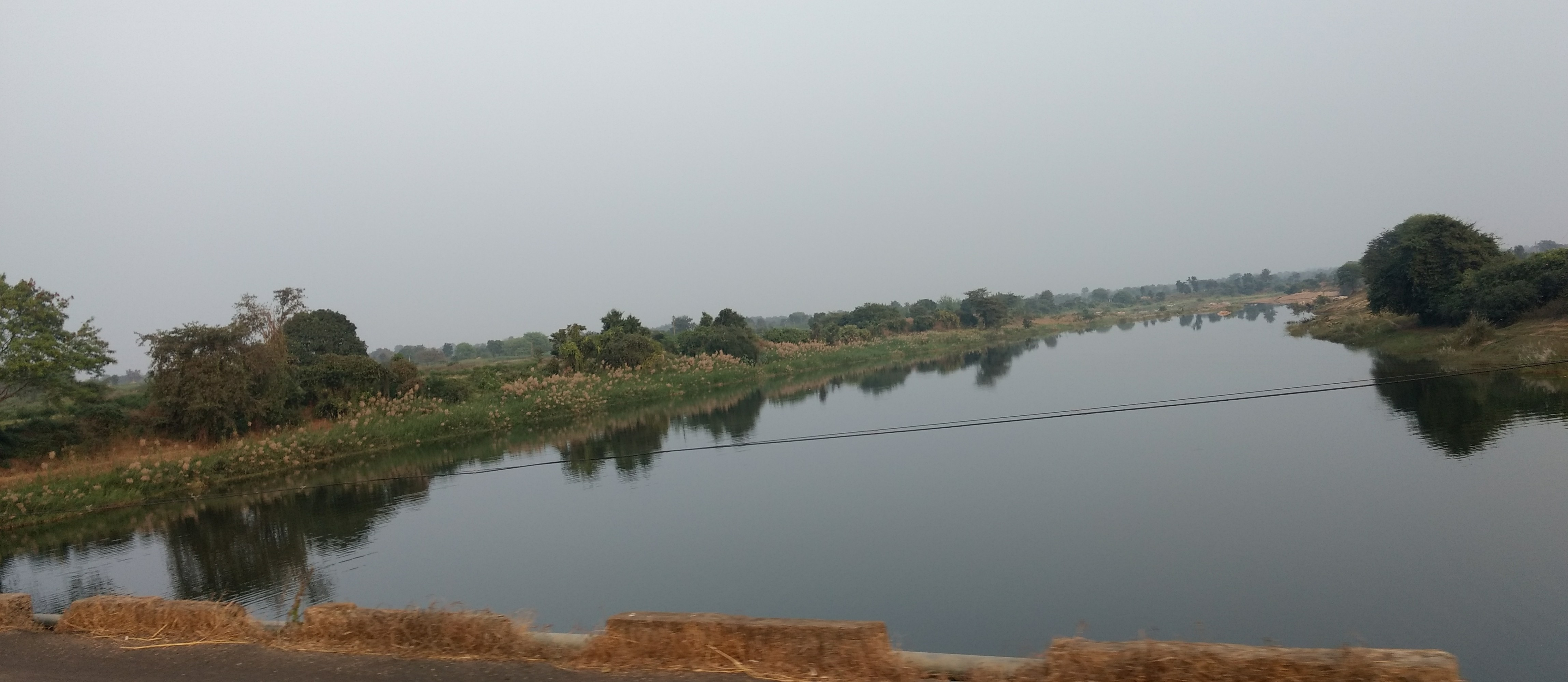 Por river near Chamorshi in December 2018.